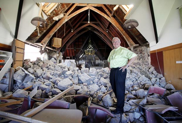 Damage to Canterbury Churches